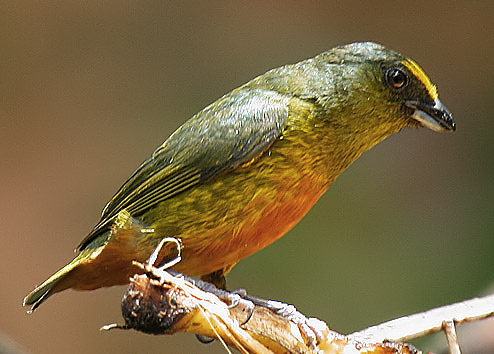 A male feeding on ripe banana near Arenal, Costa Rica.